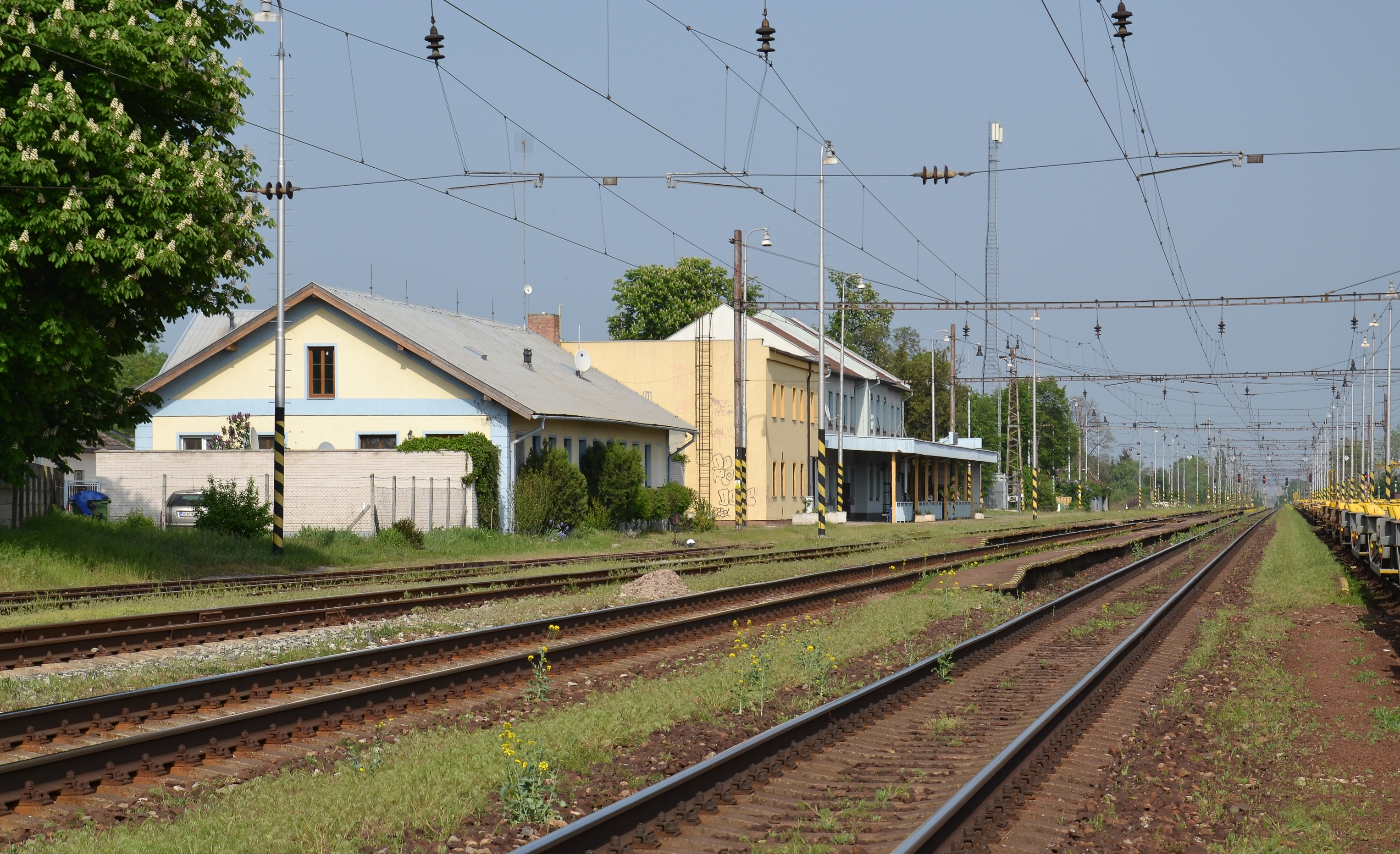 Senec (Szenc, Wartberg), Slovakia - train station